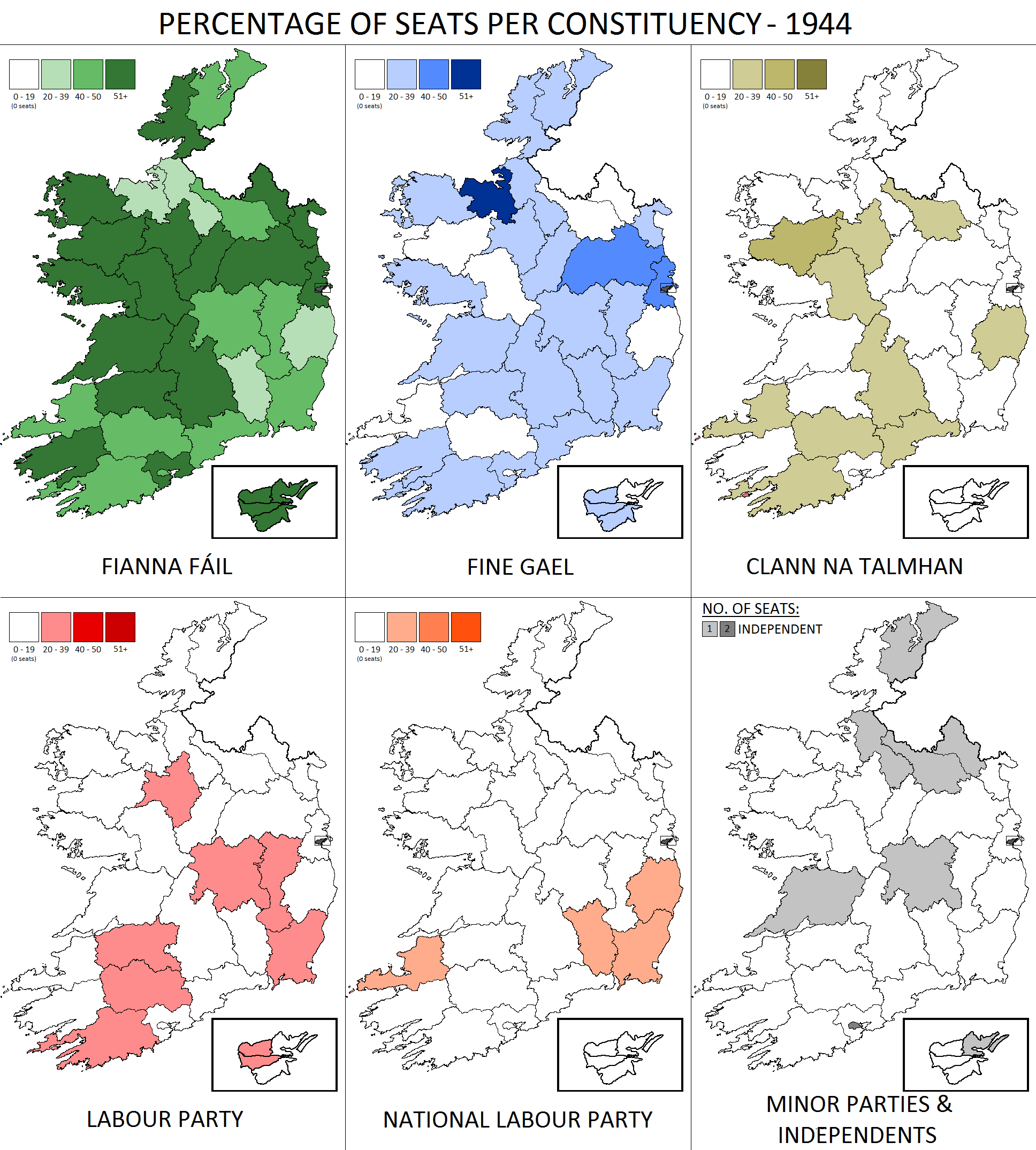 Graphical representation of the 1944 Irish general election results. Created by myself using data from Wikipedia and literary sources.